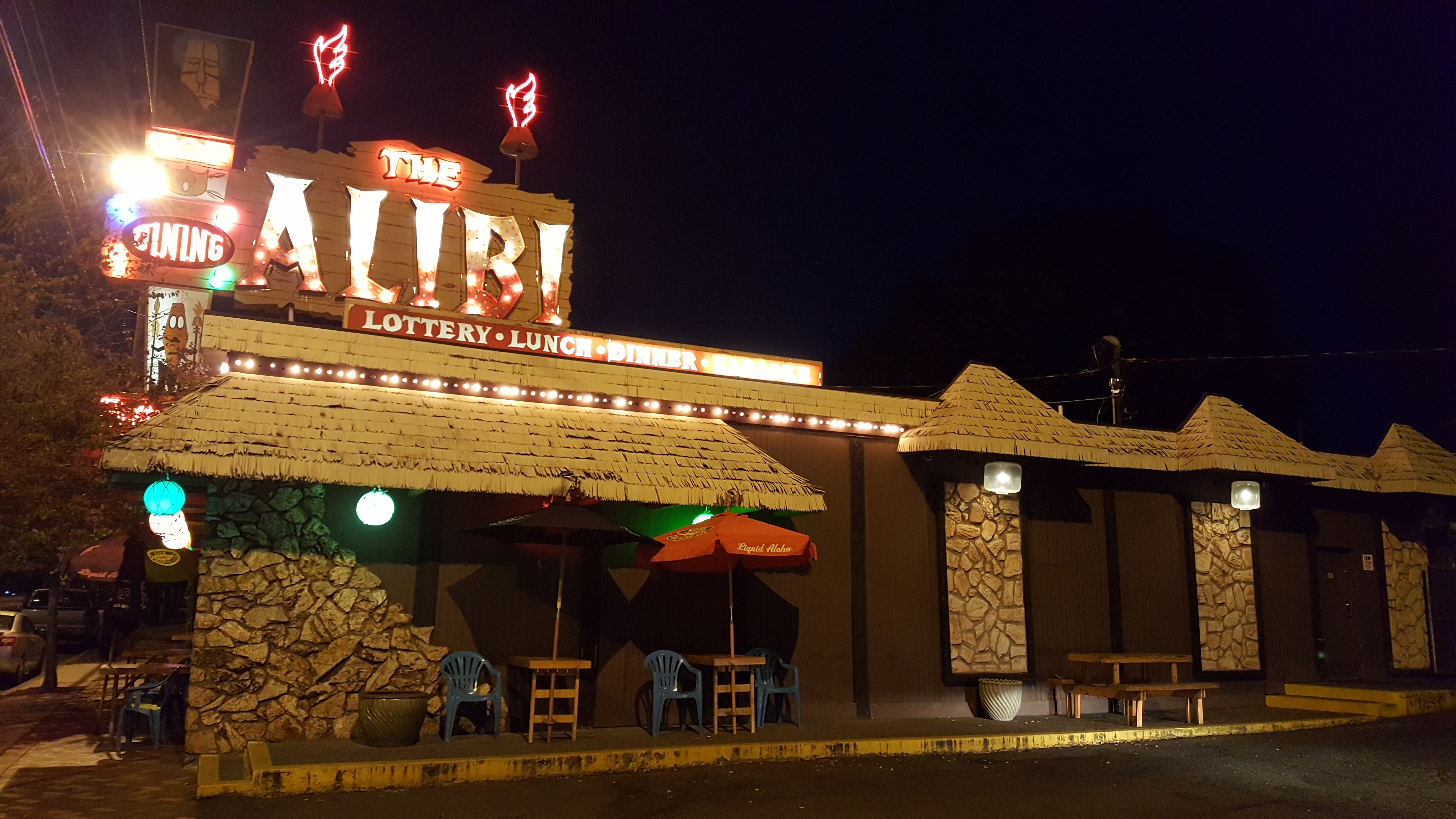 The Alibi